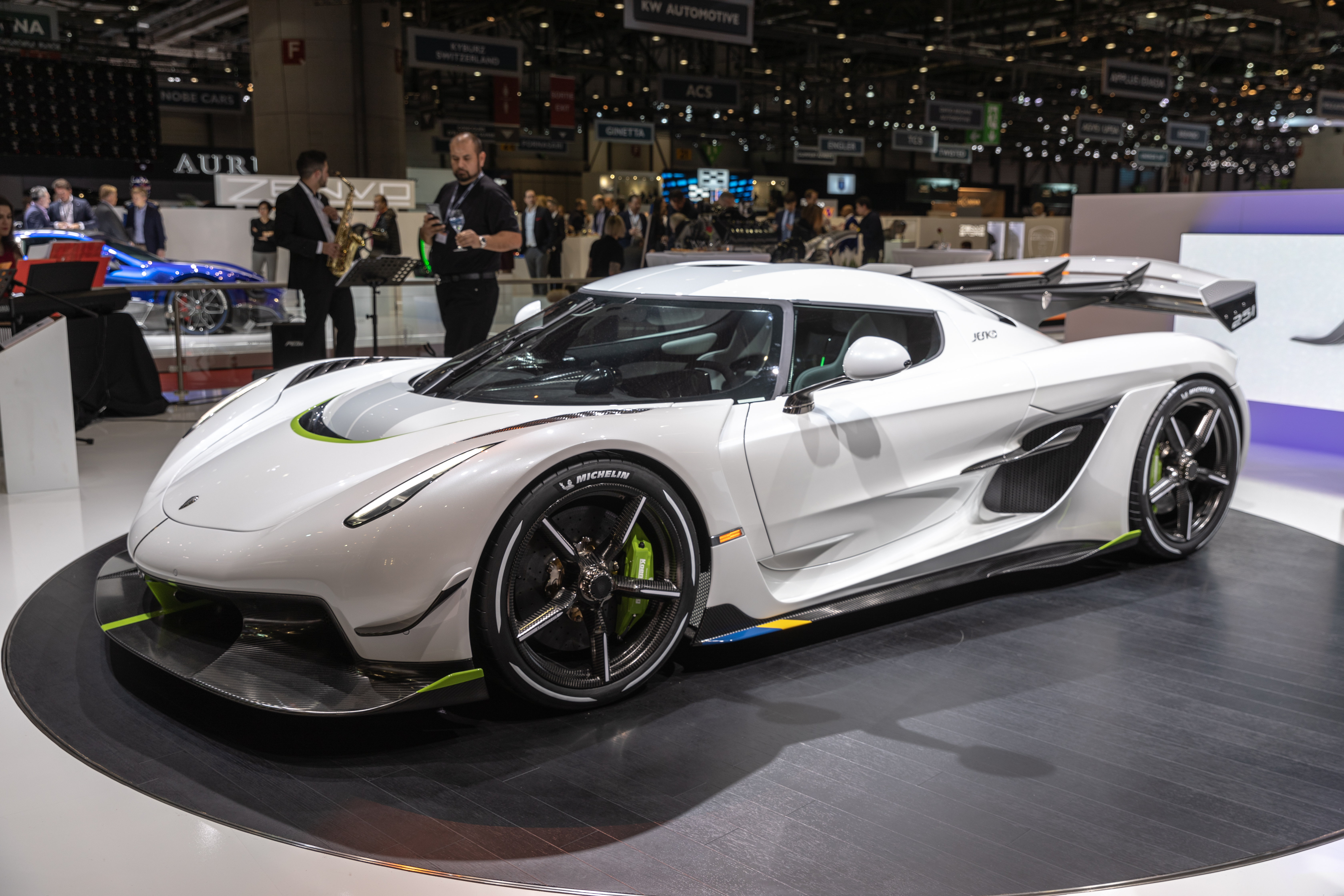 Geneva International Motor Show 2019, Le Grand-Saconnex